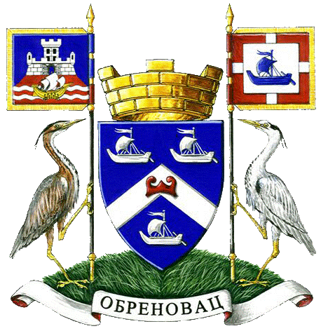 Coat of Arms of the city and municipality of Obrenovac, Serbia